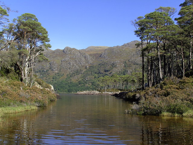 Lagoon amongst islands, Loch Maree Lagoon situated among islands on Loch Maree